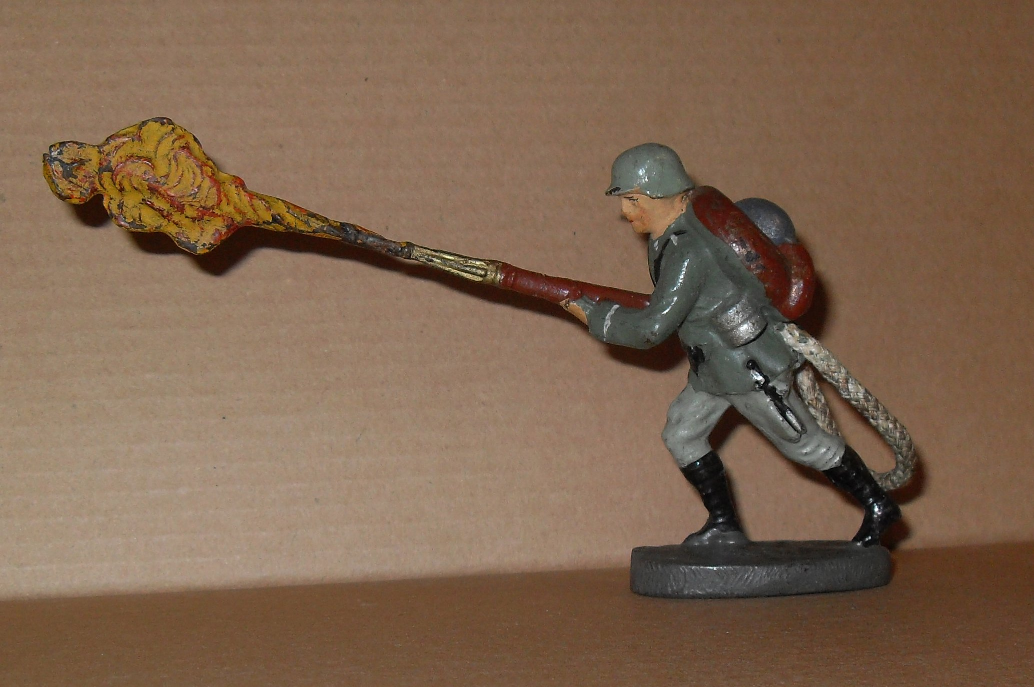 flamethrower of the German Wehrmacht, Elastolin figure, ca. 7 cm high, made in the 1930s